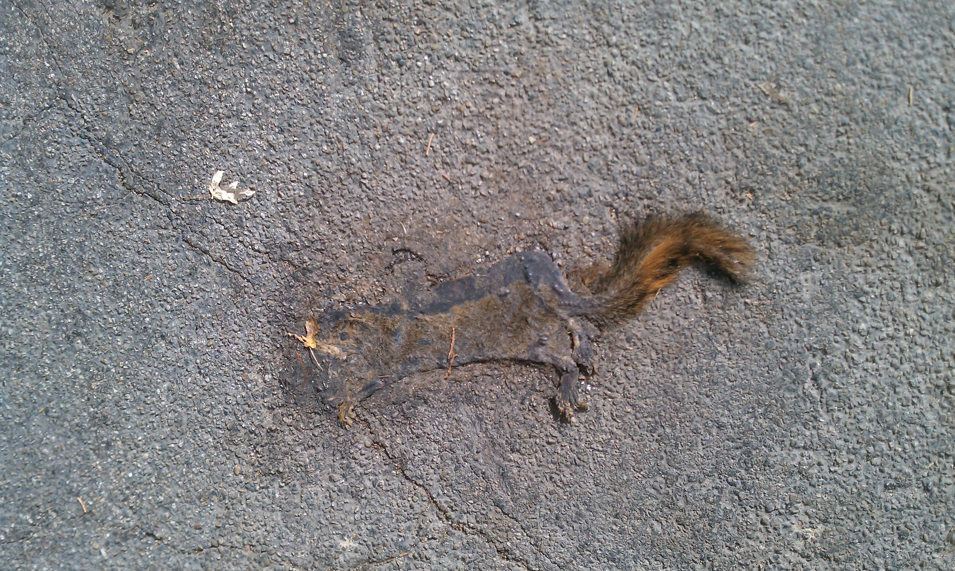 A roadkill squirrel near a driveway in Boise, Idaho.